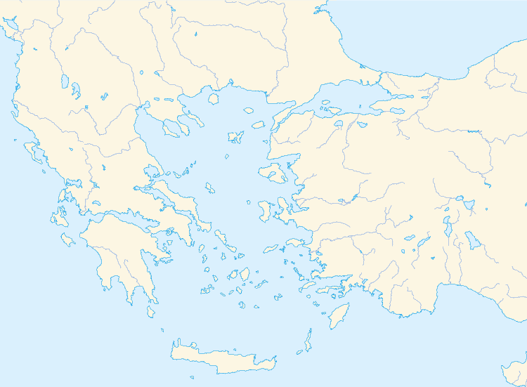 Blank Map of the Eastern Mediterranean. West 19 °, South 34.63 °, 37.3 ° East, 42.64 ° North, Created using GMT, according to the statement:pscoast -JM20/40/25c -R19/37.3/34.63/42.64 -G252/245/227 -S218/240/253 -W0.25p,39/170/234 -Ia/1/143/176/230 -Df -A10 -P